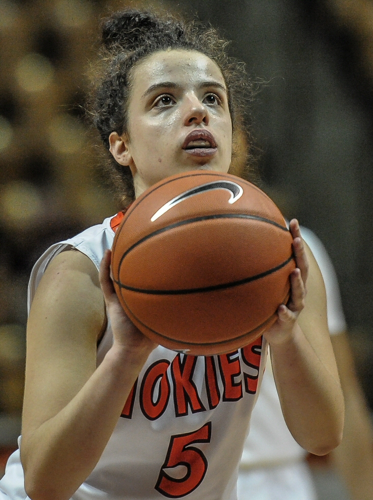 5 Vanessa Panousis takes a foul shot for Virginia Tech against Robert Morris